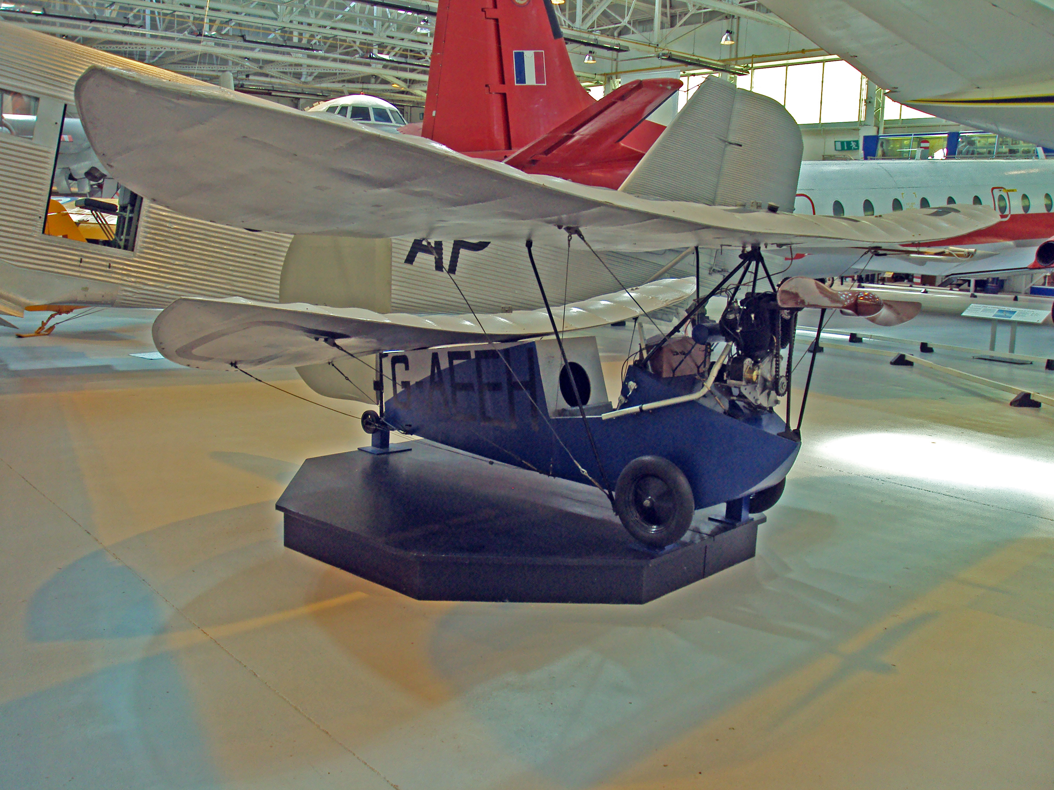 Mignet HM.14 Pou du Ciel ("Flying Flea") at the RAF Museum Cosford, Shropshire, England.